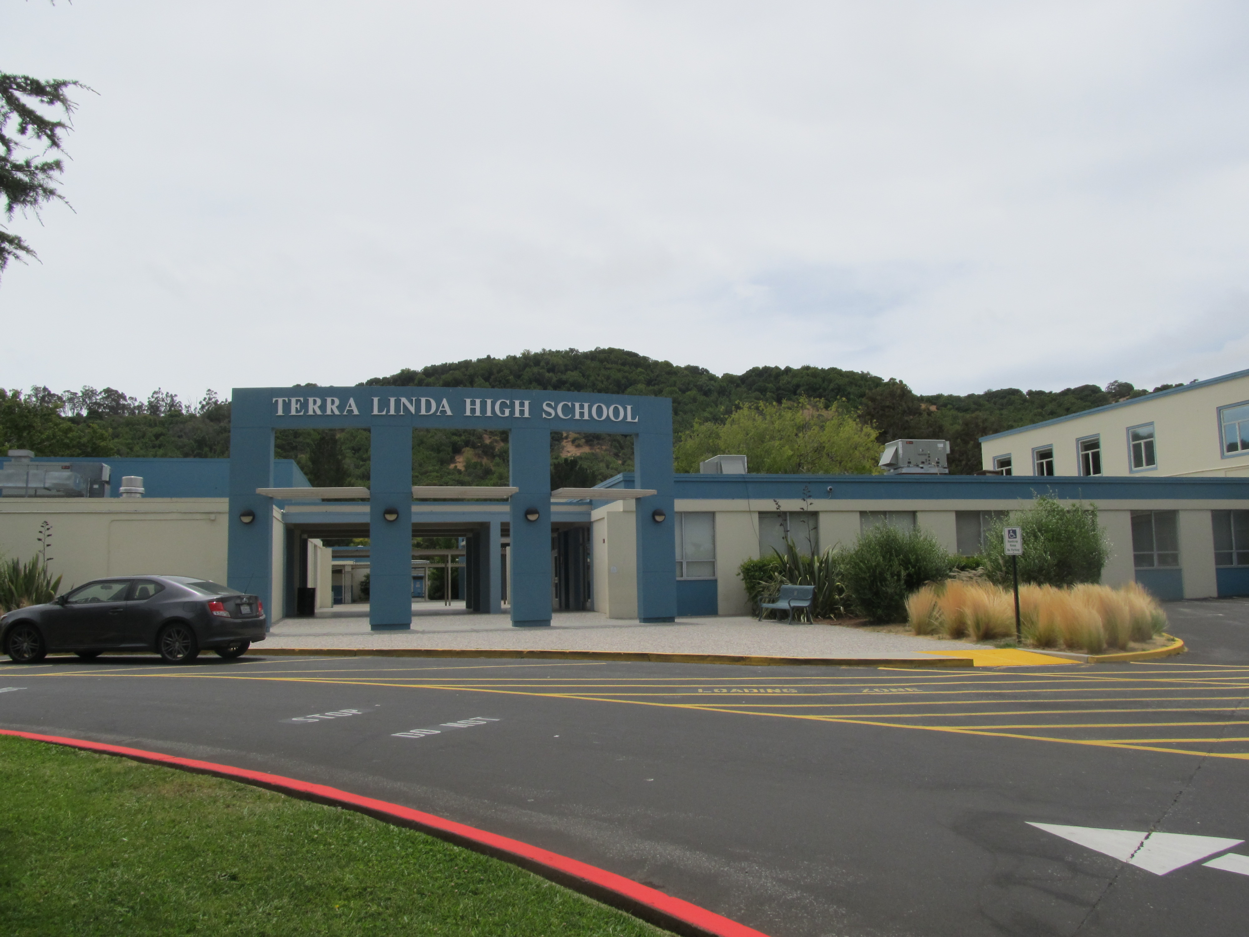 Terra Linda High School in San Rafael, California.